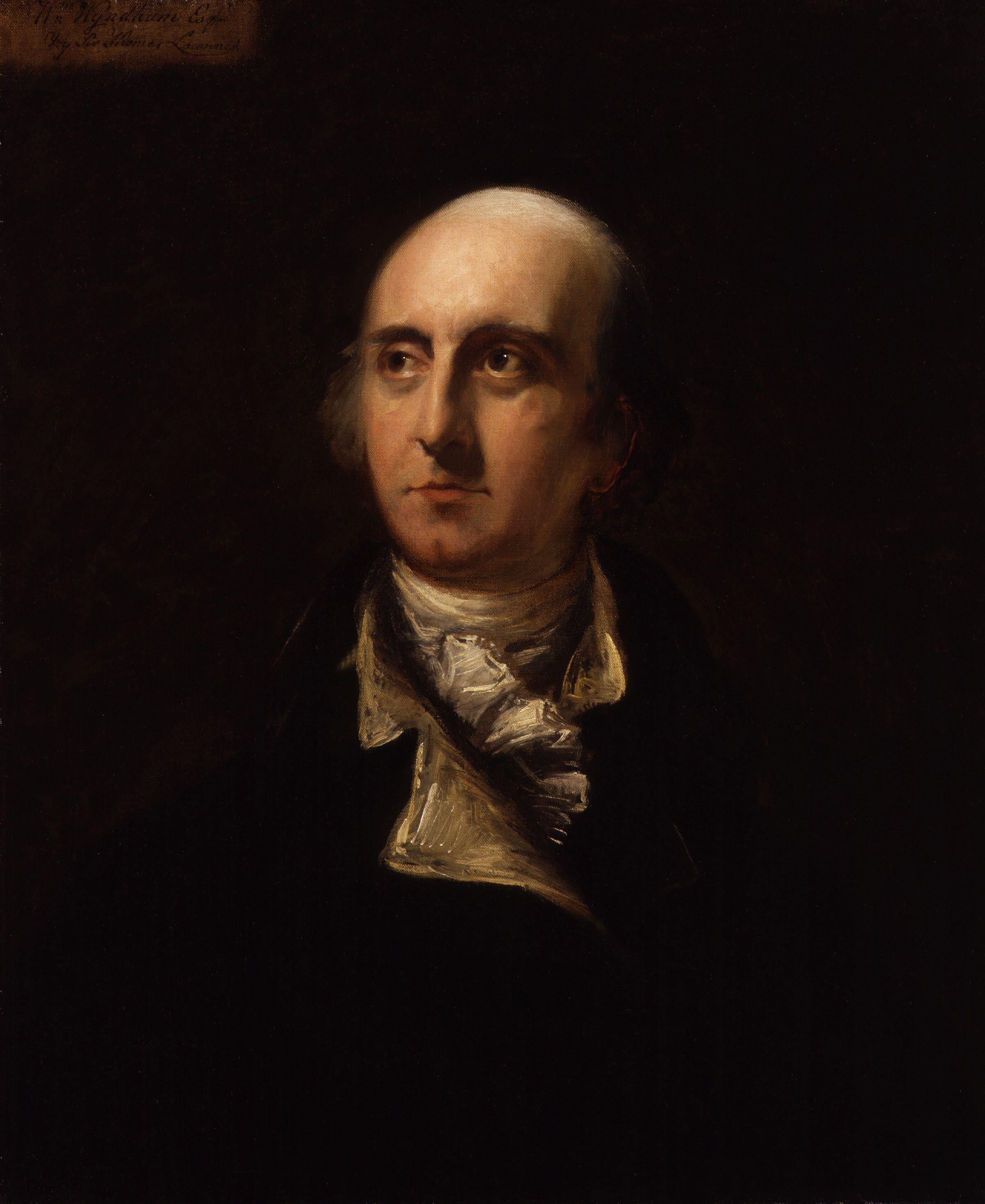 William Windham, by Sir Thomas Lawrence (died 1830). All images in this batch have been confirmed as author died before 1939 according to the official death date listed by the NPG.